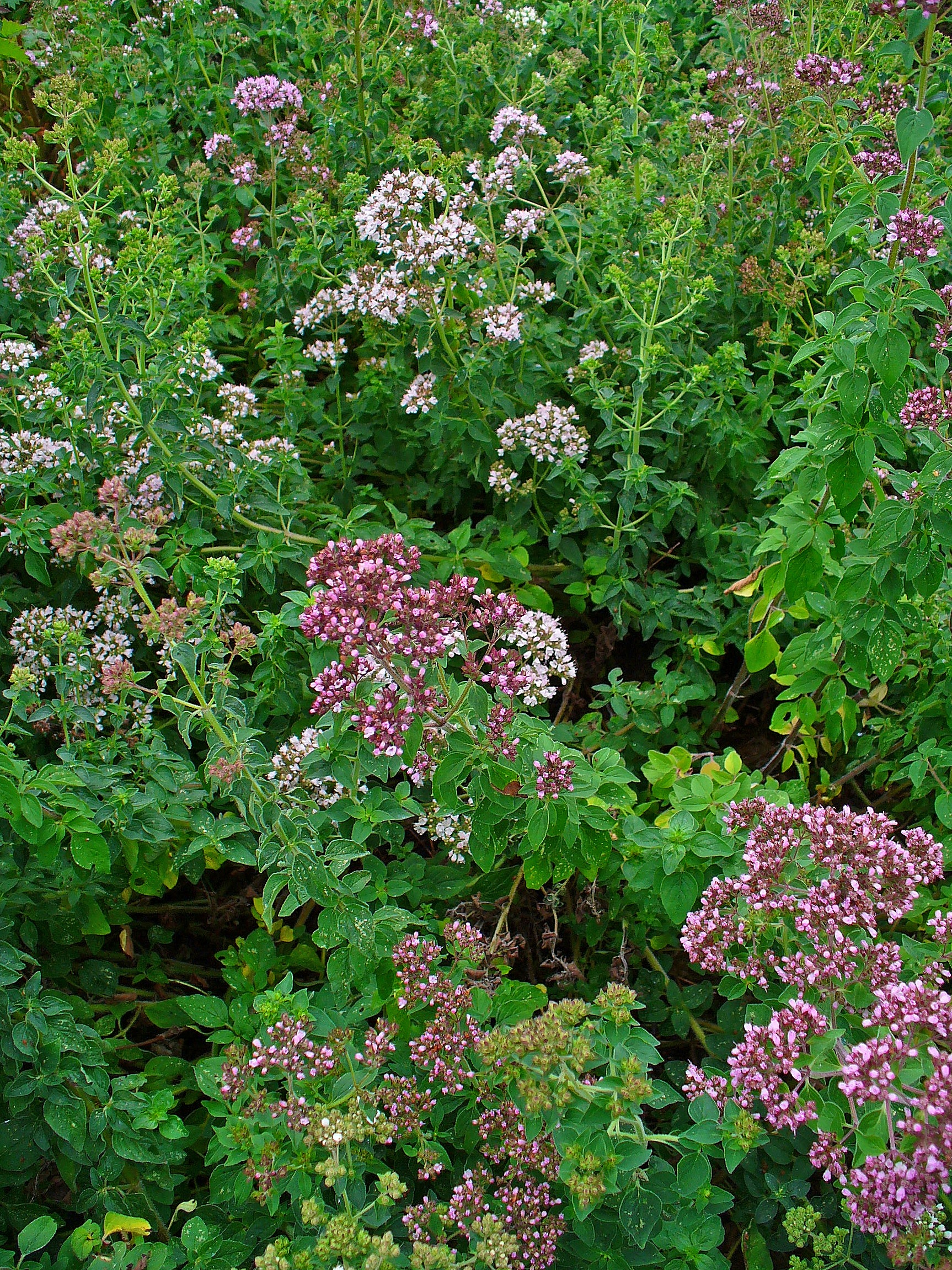 Origanum vulgare, Lamiaceae, Oregano, Wild Marjoram, habitus. Botanical Garden KIT, Karlsruhe, Germany.